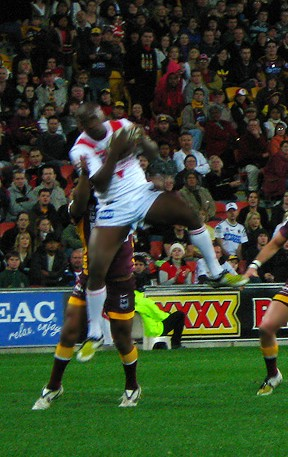 Dual-code Australian rugby player Wendell Sailor